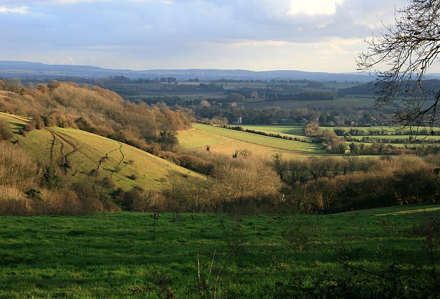 Looking down on Holybourne from Holybourne Down The woodland in the left middle distance is apparently known as Angels' Heaven. Just visible in the centre of the picture is the angels' nearest other piece of holy ground: the Church of the Holy Rood in Holybourne.